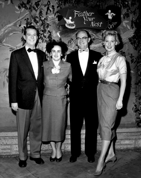 Photo of Bud Collyer as the host of the early television game show Feather Your Nest. Janis Carter is on the right.